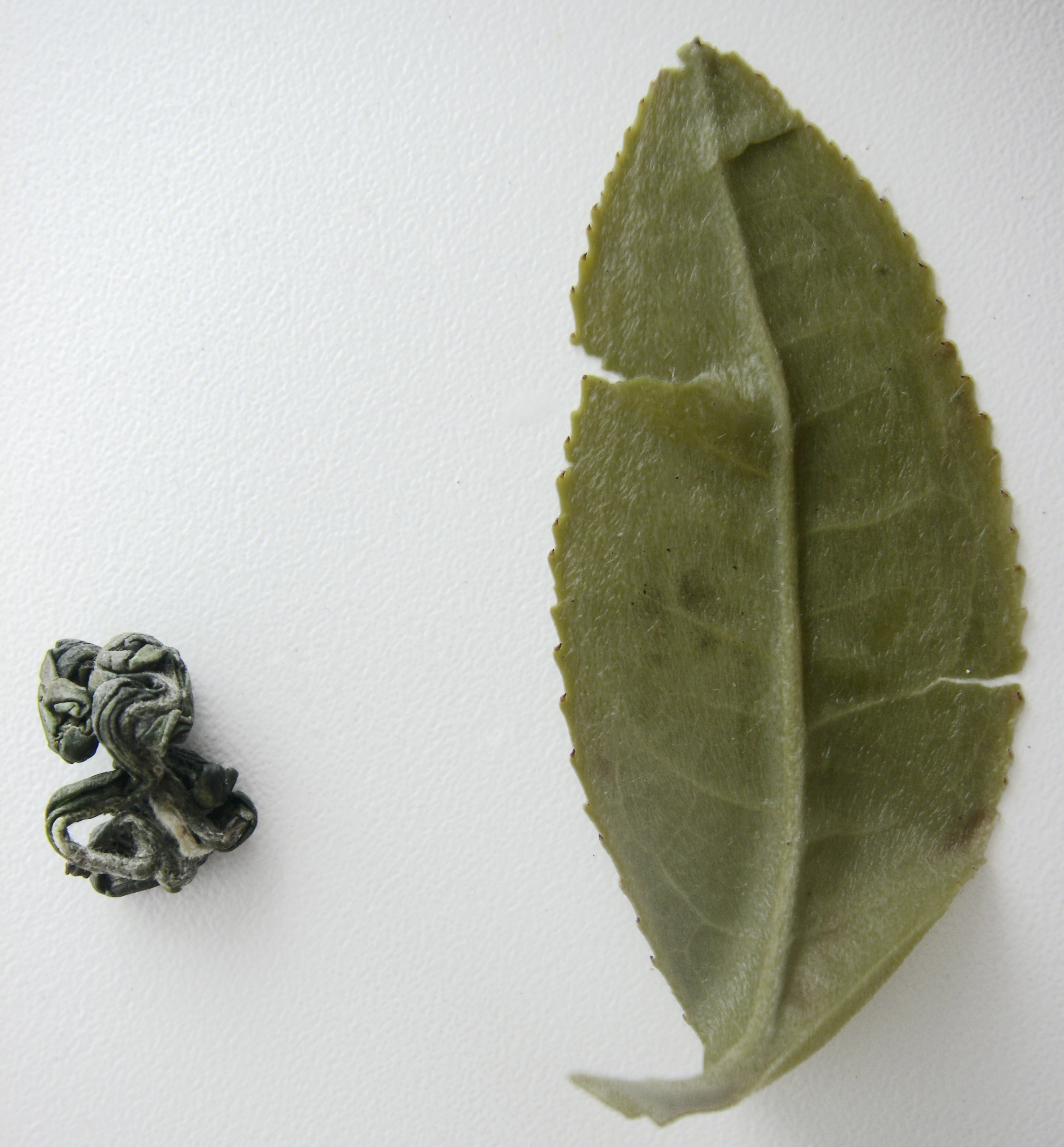 Green tea